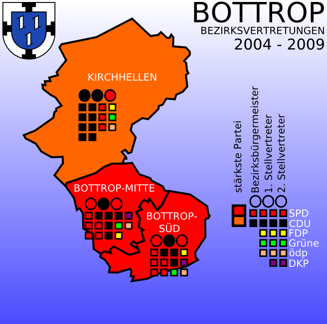 District mayors of the districts Kirchhellen, Bottrop-Mitte and Bottrop-Süd of the City of Bottrop in Northrhine-Westfalia.